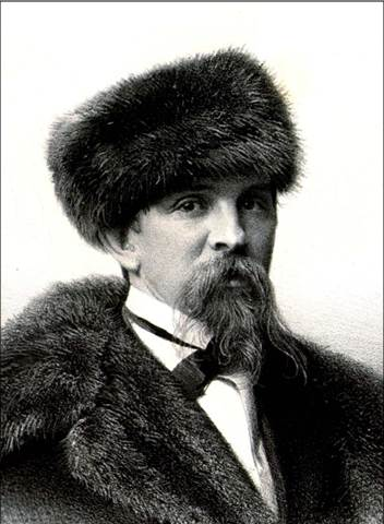 Russian painter Vasily Khudiakov (alternate crop)